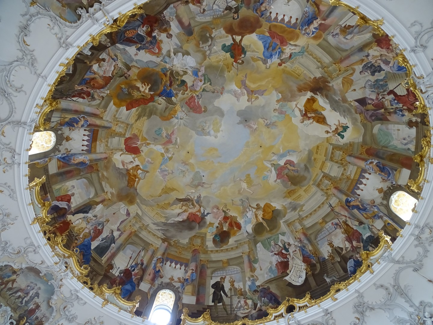 The interior of the castle Bruchsal, painting on the ceiling